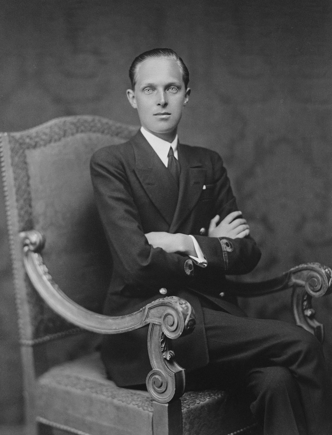 Portrait of the Prince of Asturias, Alfonso de Borbón y Battenberg, son of Alfonso XIII and Victoria Eugenie of Battenberg, in a naval double-breasted blazer.